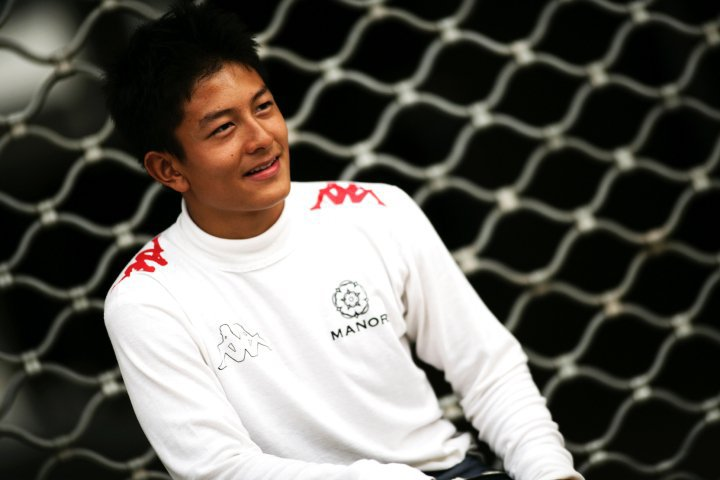 Rio Haryanto with Manor GP shirt